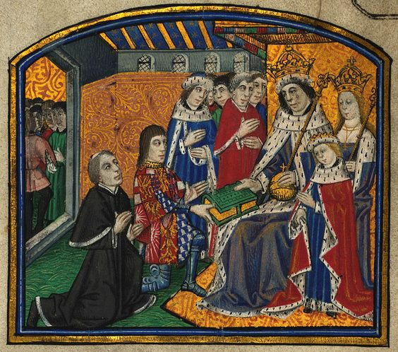 Presentation miniature from Dictes and Sayings of the Philosophers, the first printed book in the English language, translated by Anthony Woodville, 2nd Earl Rivers and printed by William Caxton. The miniature shows Rivers presenting the book to Edward IV, accompanied by his wife Elizabeth Woodville and son Edward, Prince of Wales. Lambeth Palace Library, MS 265.